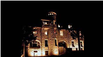 Cornell Deke House